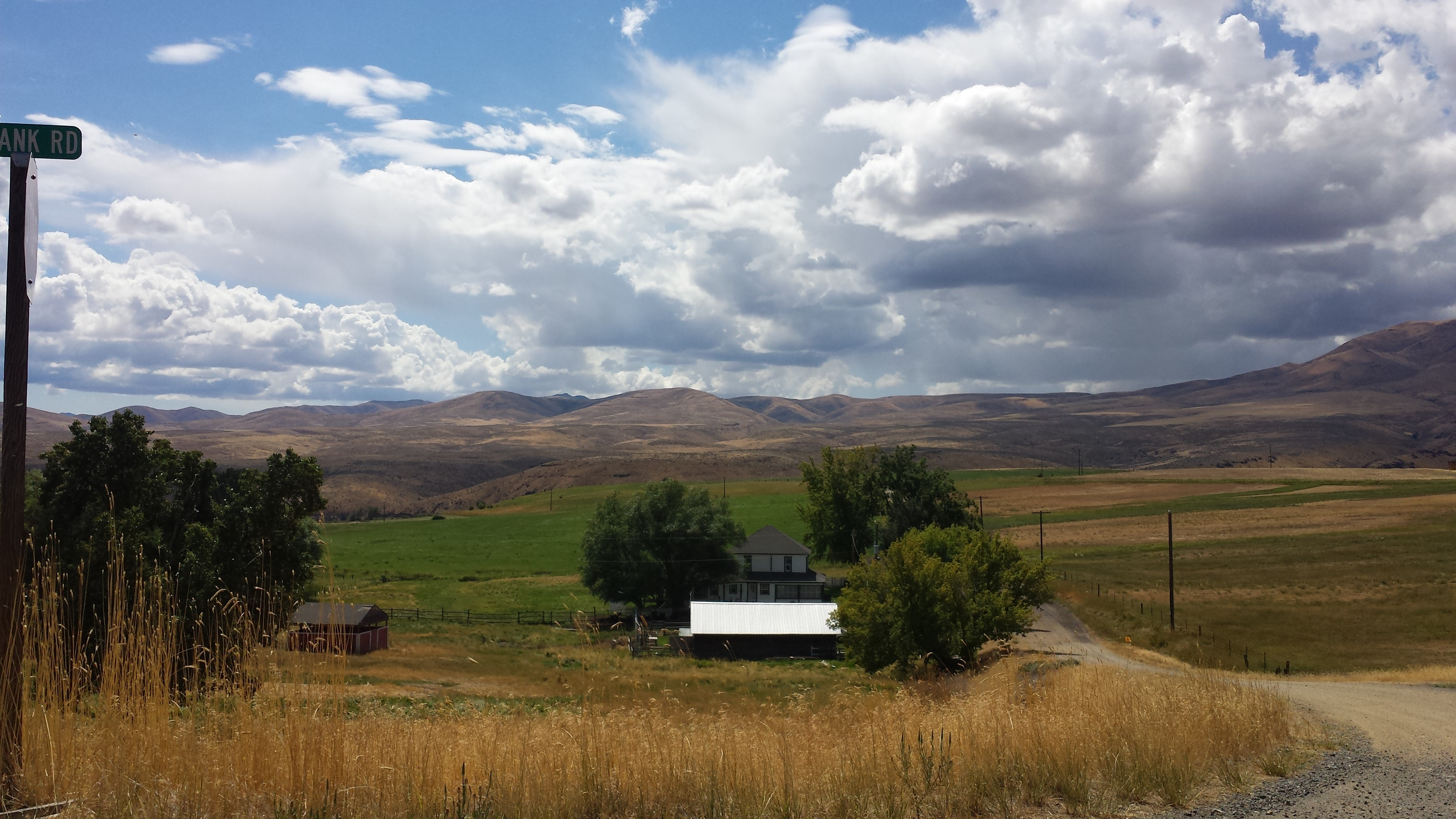 Big Lookout Mountain Range from Highway 86, 3 miles outside of Richland, Oregon.